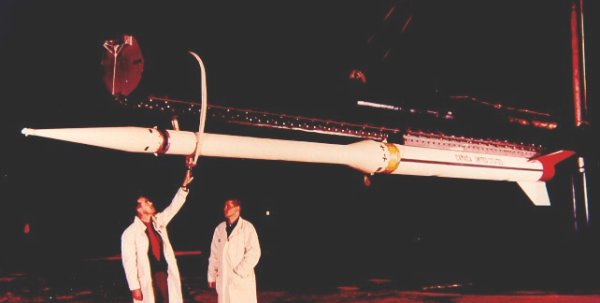 Black Brant IV sounding rocket